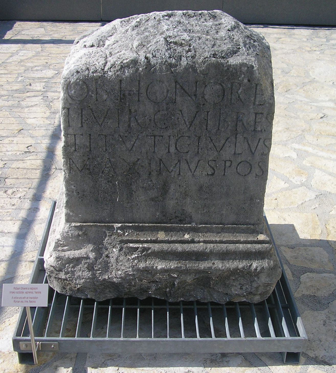 Museum exponat, archeological museum Narona, Vid, Croatia